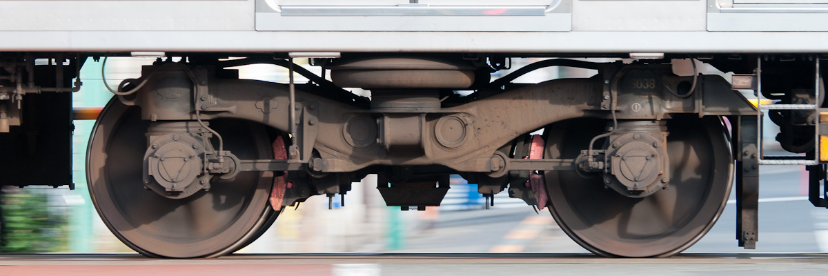 Tobu 30000 series EMU SS038 trailer bogie